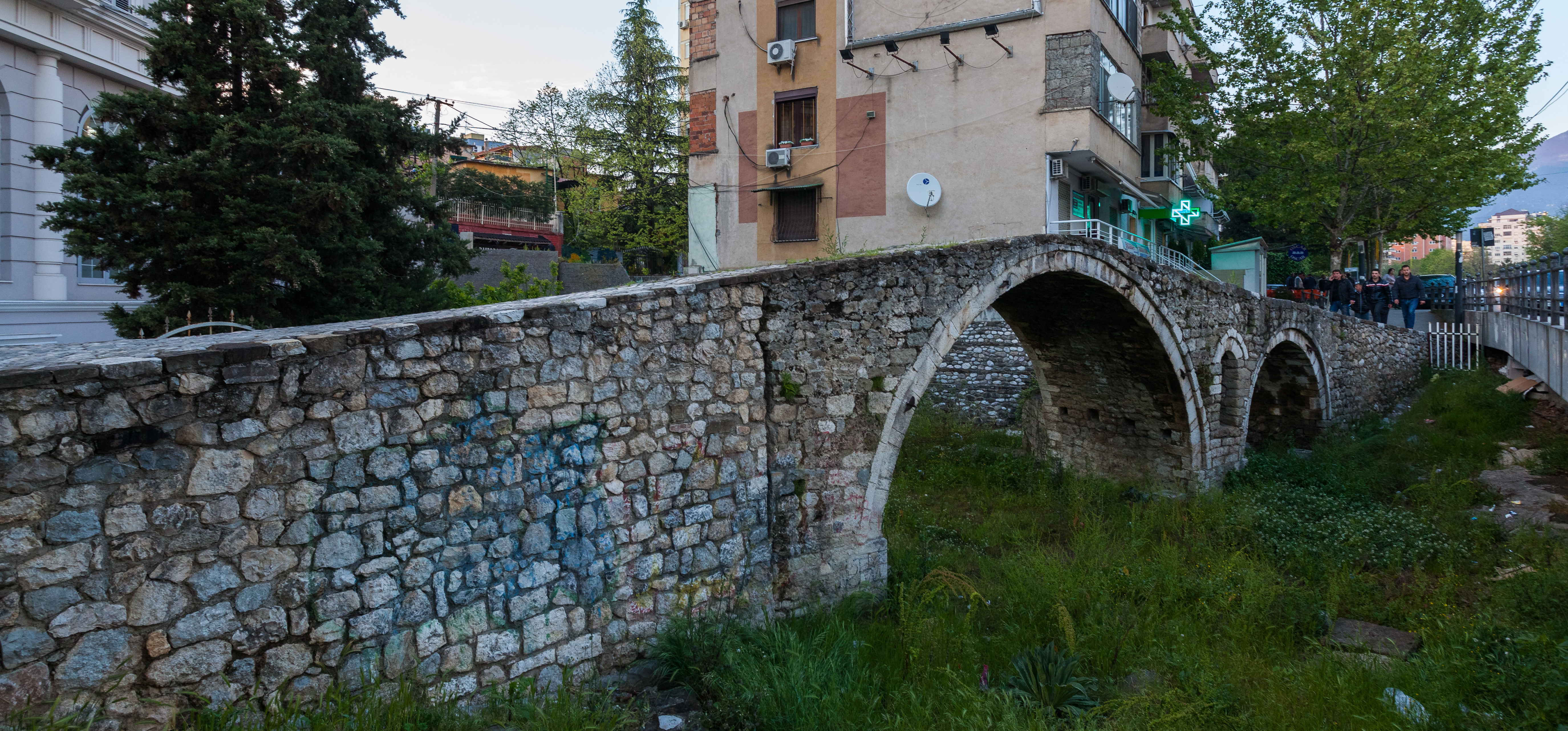 Tanner's bridge, Tirana, Albania